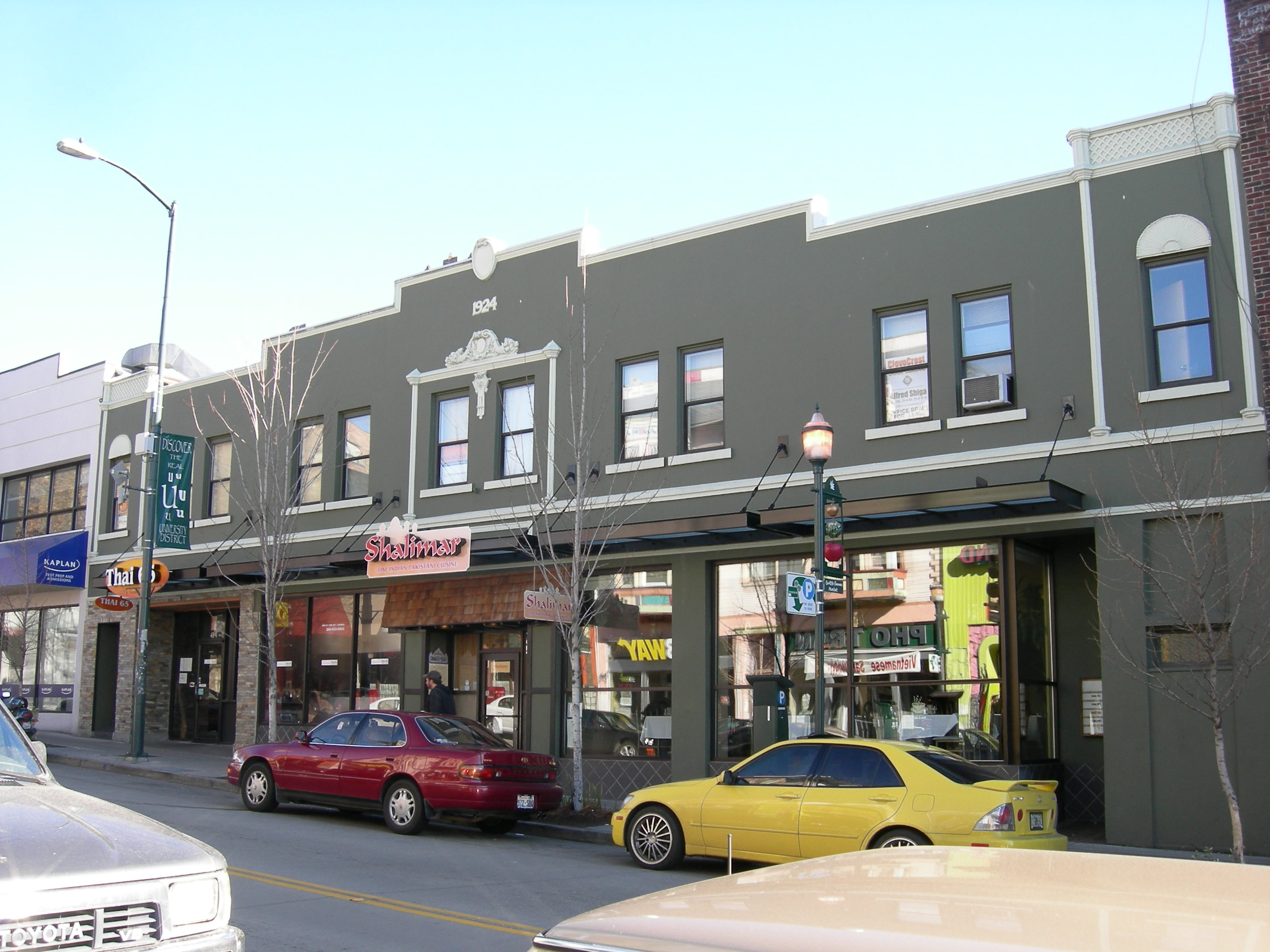 I'm not sure whether this reasonably prominent building in the 4200 block of University Way, Seattle, Washington has any official name. I'm told it was originally (1924) a mortuary. In the mid-1970s it was a bank. Since then, it's mostly been restaurants downstairs. Upstairs is office space. In the back since the 1970s has been the Allegro coffeehouse.